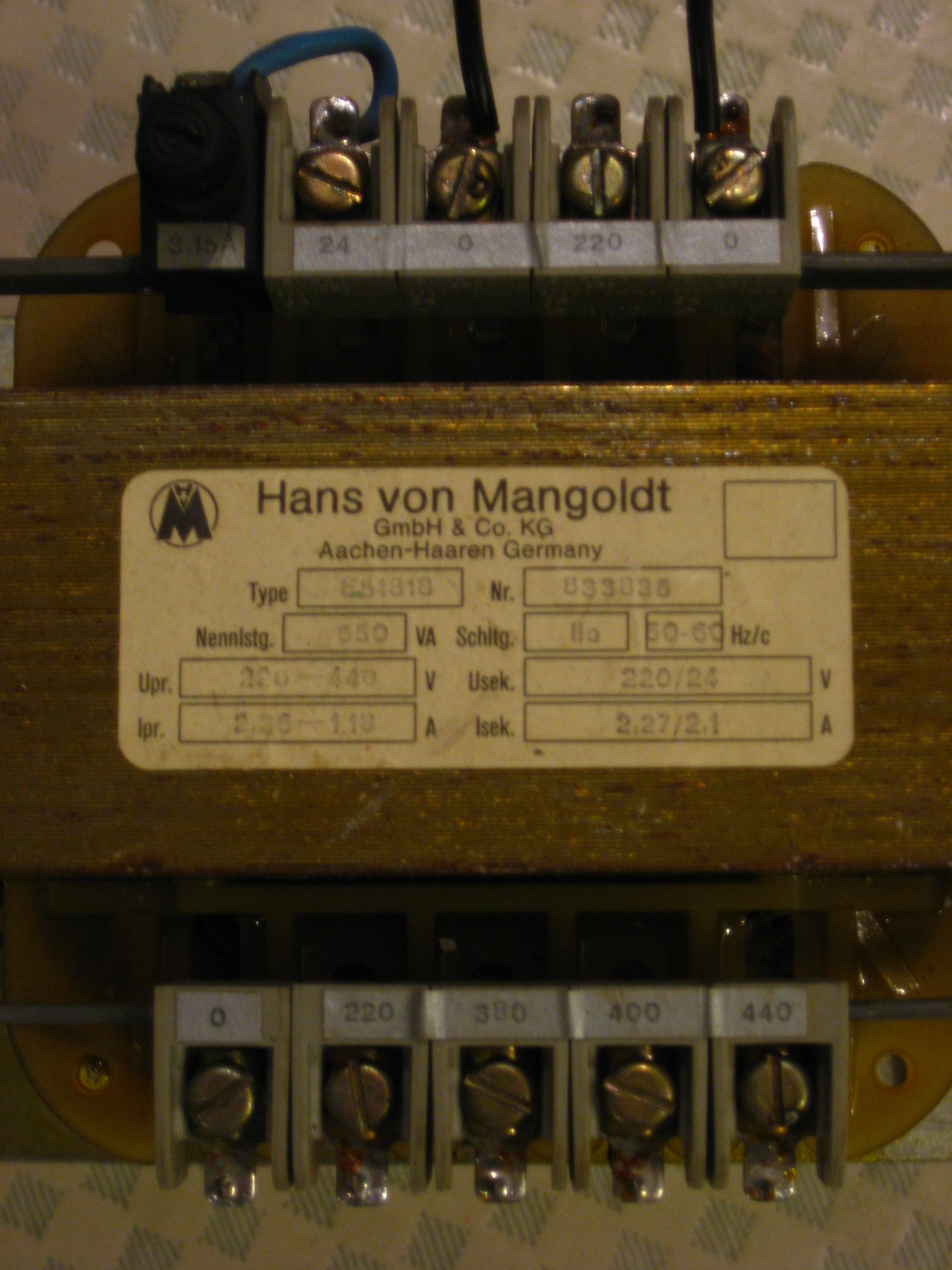 Transformer, muuntaja. Primary and secondary, ensiö ja toisio.